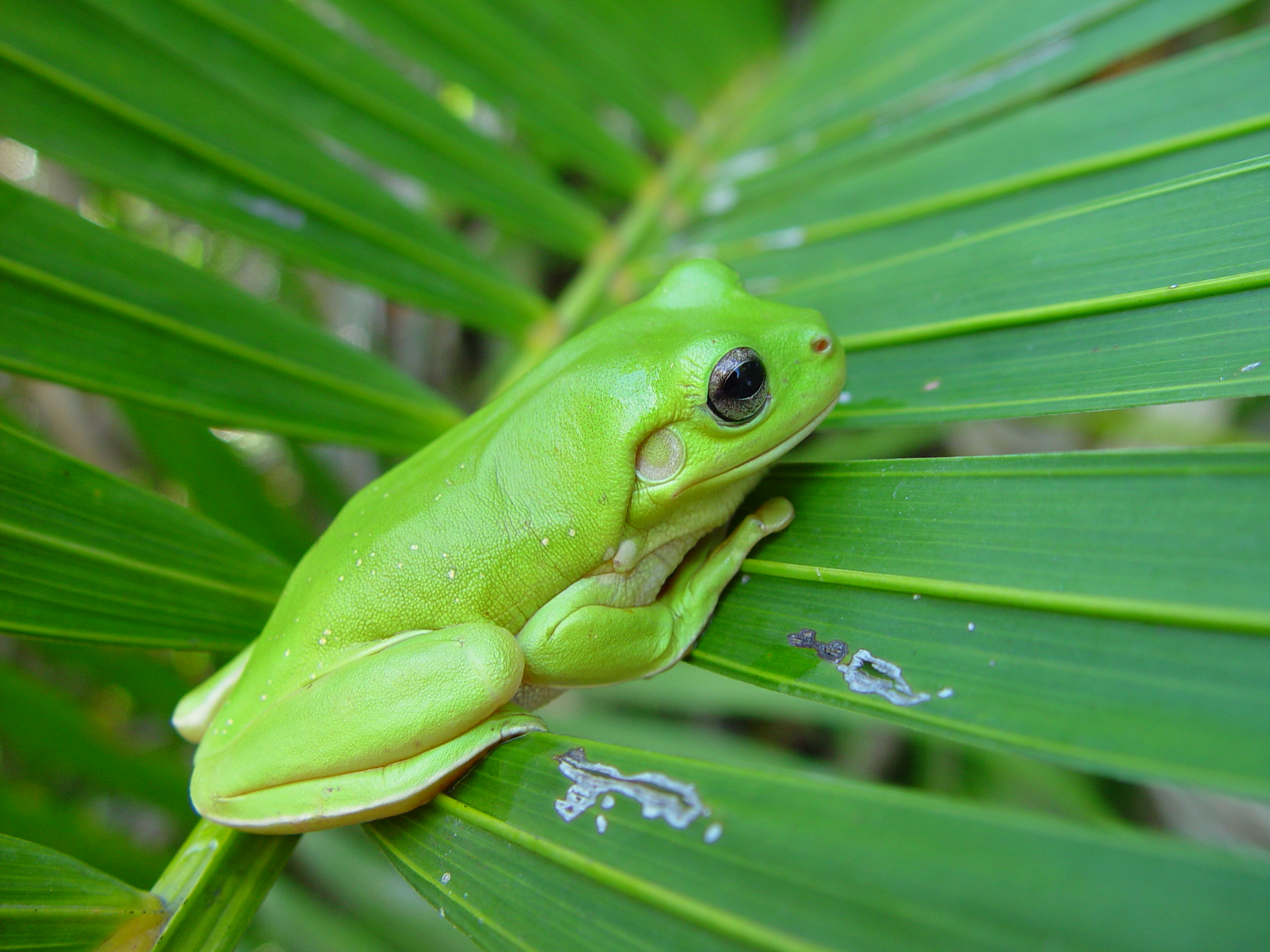 A green frog on a palm frond.